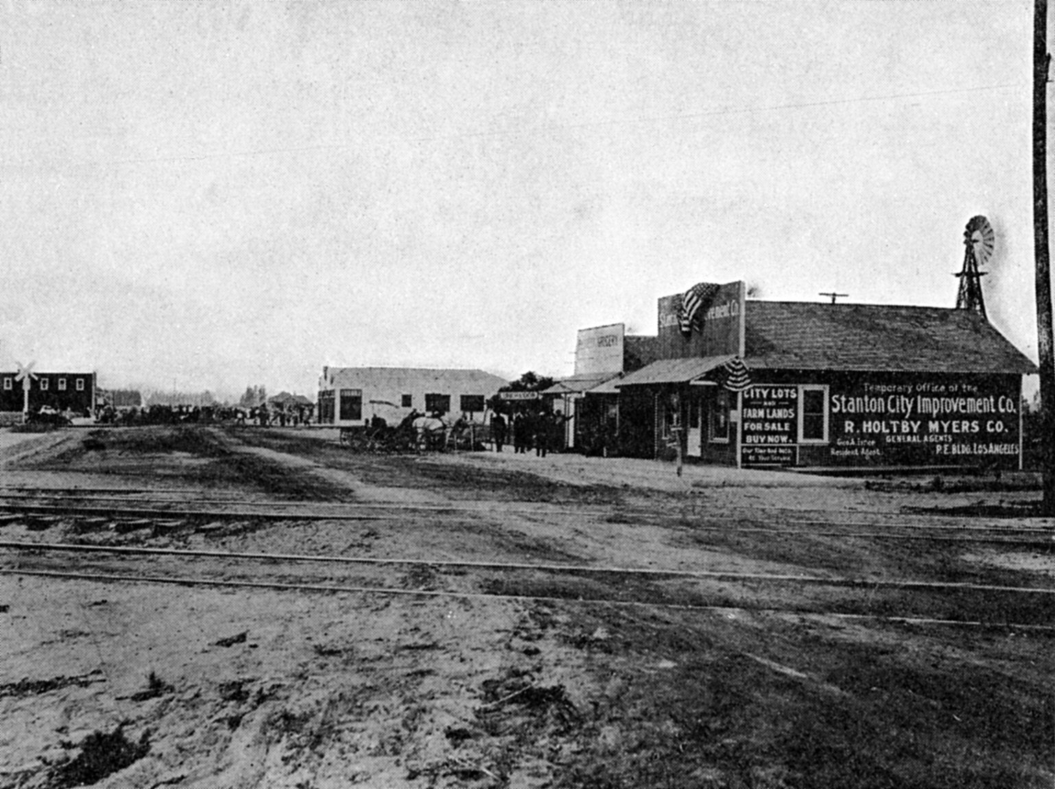 There are no known copyright restrictions on this image. All future uses of this photo should include the courtesy line, "Photo courtesy Orange County Archives."